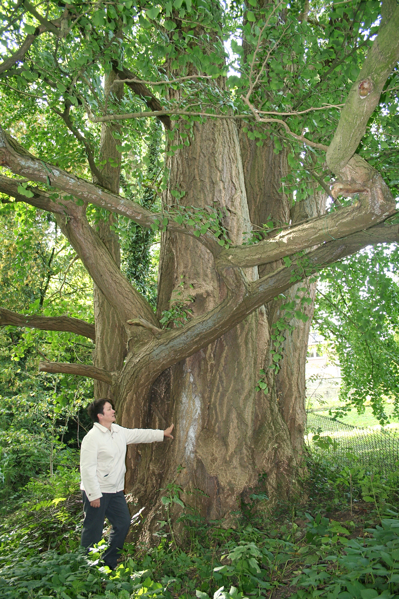 Ginkgo biloba also known as Maidenhair Tree.